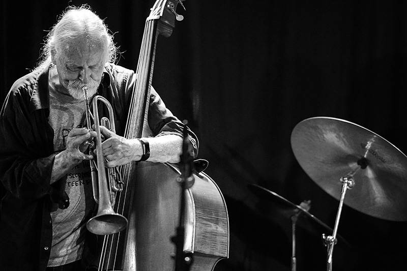 Brian Sandstrom at Copenhagen Jazz Festival 2018